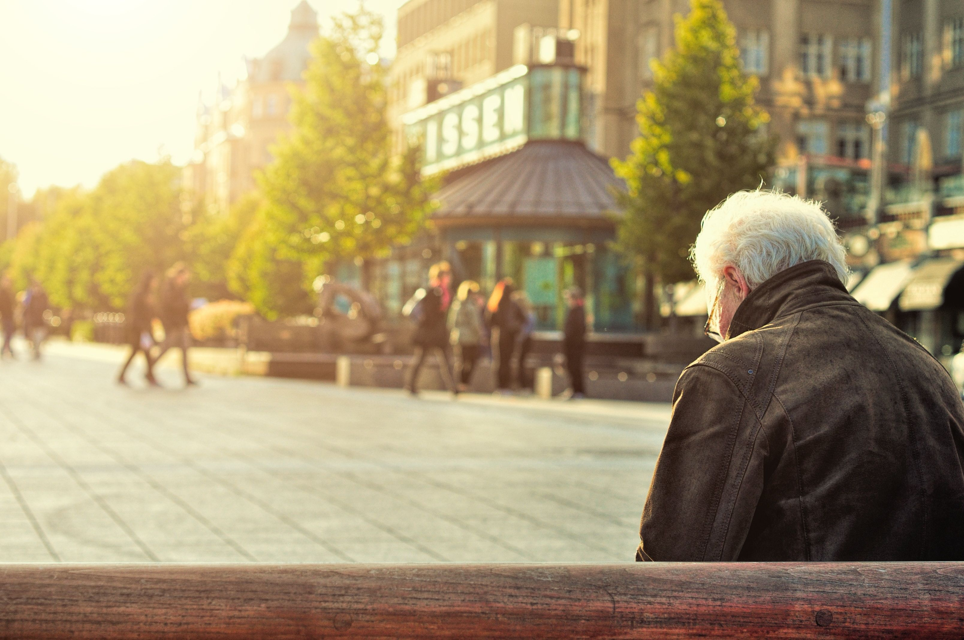 Man, person, bench and town square